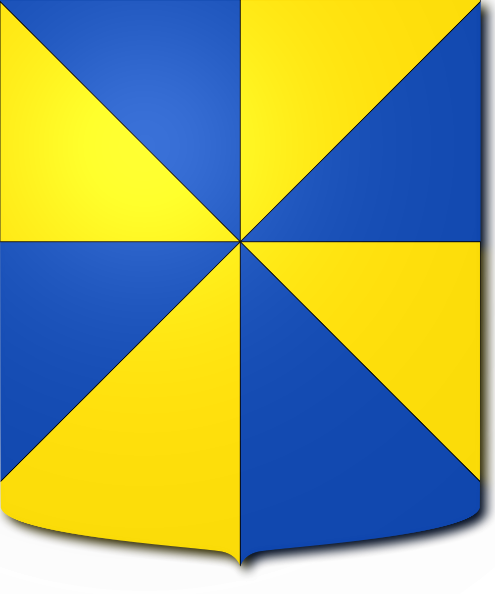 Abramo shield